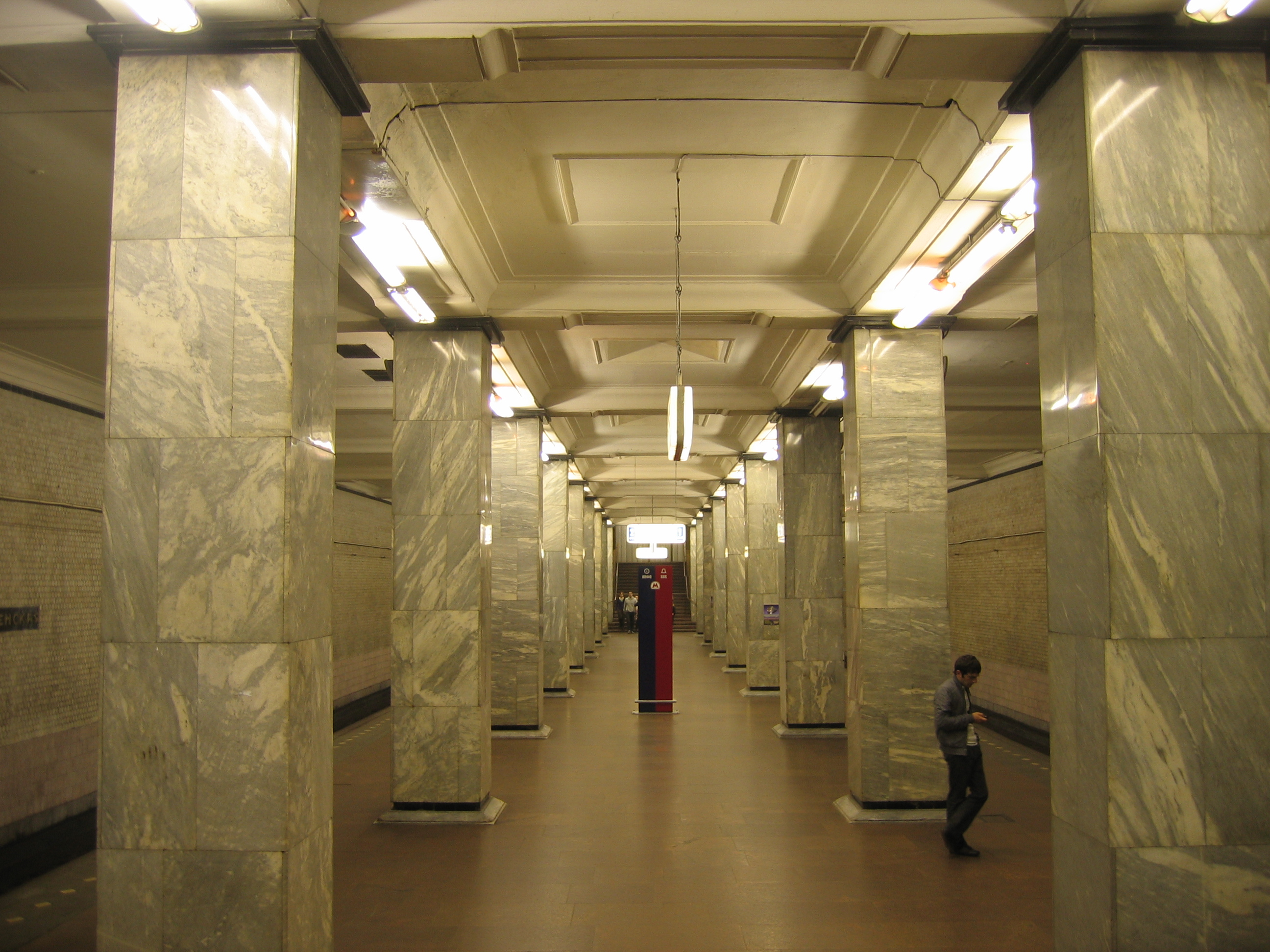 Station Smolenskaya (FL) of Moscow Metro